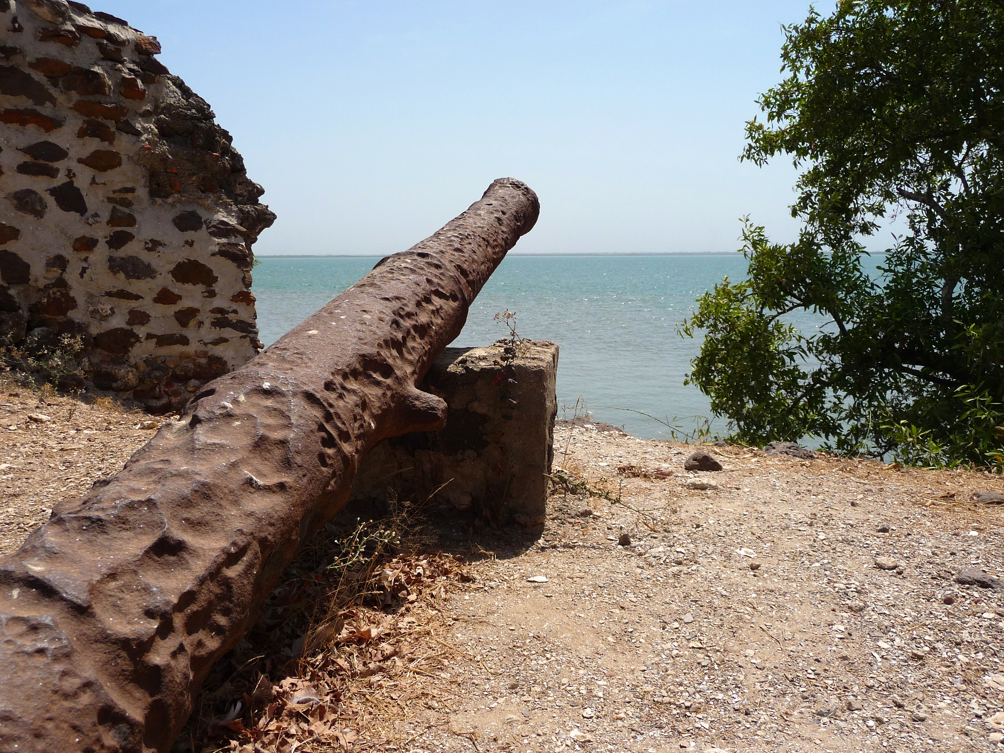 Gambia 2010 - St. James island